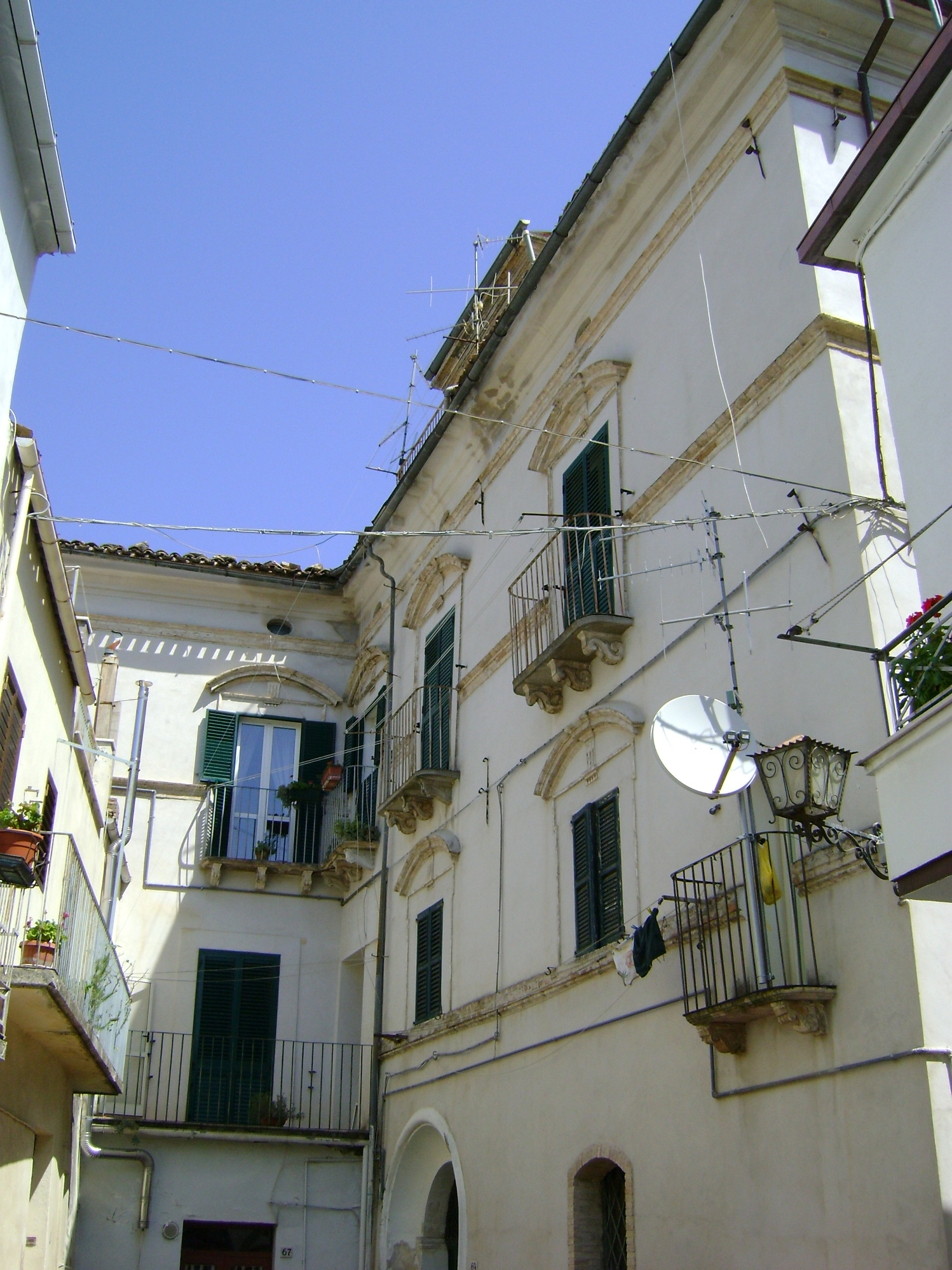 Palazzo Coccia-Ferri, Atessa, provincia di Chieti, Abruzzo